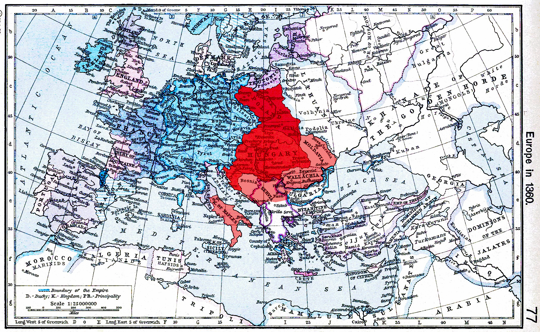 Between 1370 and 1382 Hungary was in a personal union with Poland (red territories). Louis's vassal (or dependent) territories are coloured coral pink. Sources: KNIGHT KINGS,THE ANJOU- AND SIGISMUND AGE IN HUNGARY (1301-1437), Encyclopaedia Humana Hungarica 03.,Budapest, 1997,[1], + other modern maps ([2][3][4][5][6])